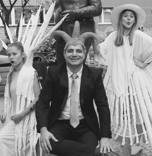 Houmayoun Mahmoudi Legnica, Poland 2014